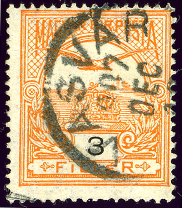 Kingdom of Hungary 3 fillér orange stamp, sub-issue 1906 (perforated 15, SG142 ), cancelled at VASVÁR (comitat Vas) in 1907, Hungary. Michel N°76B